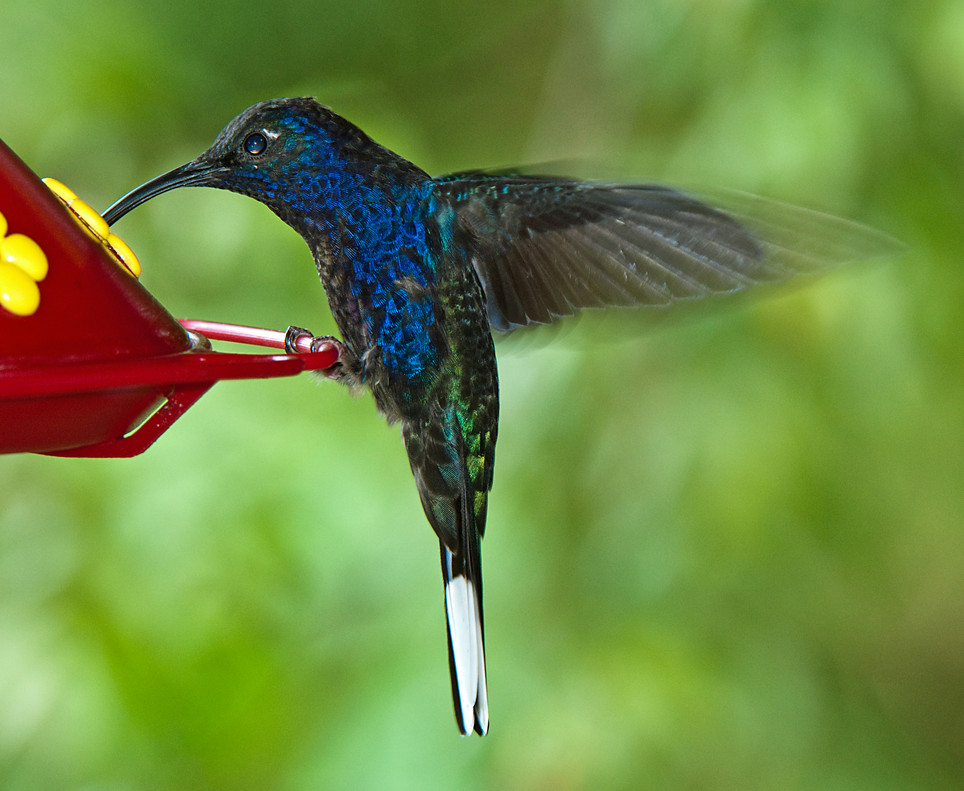 Campylopterus hemileucurus Rancho Naturalista, Costa Rica